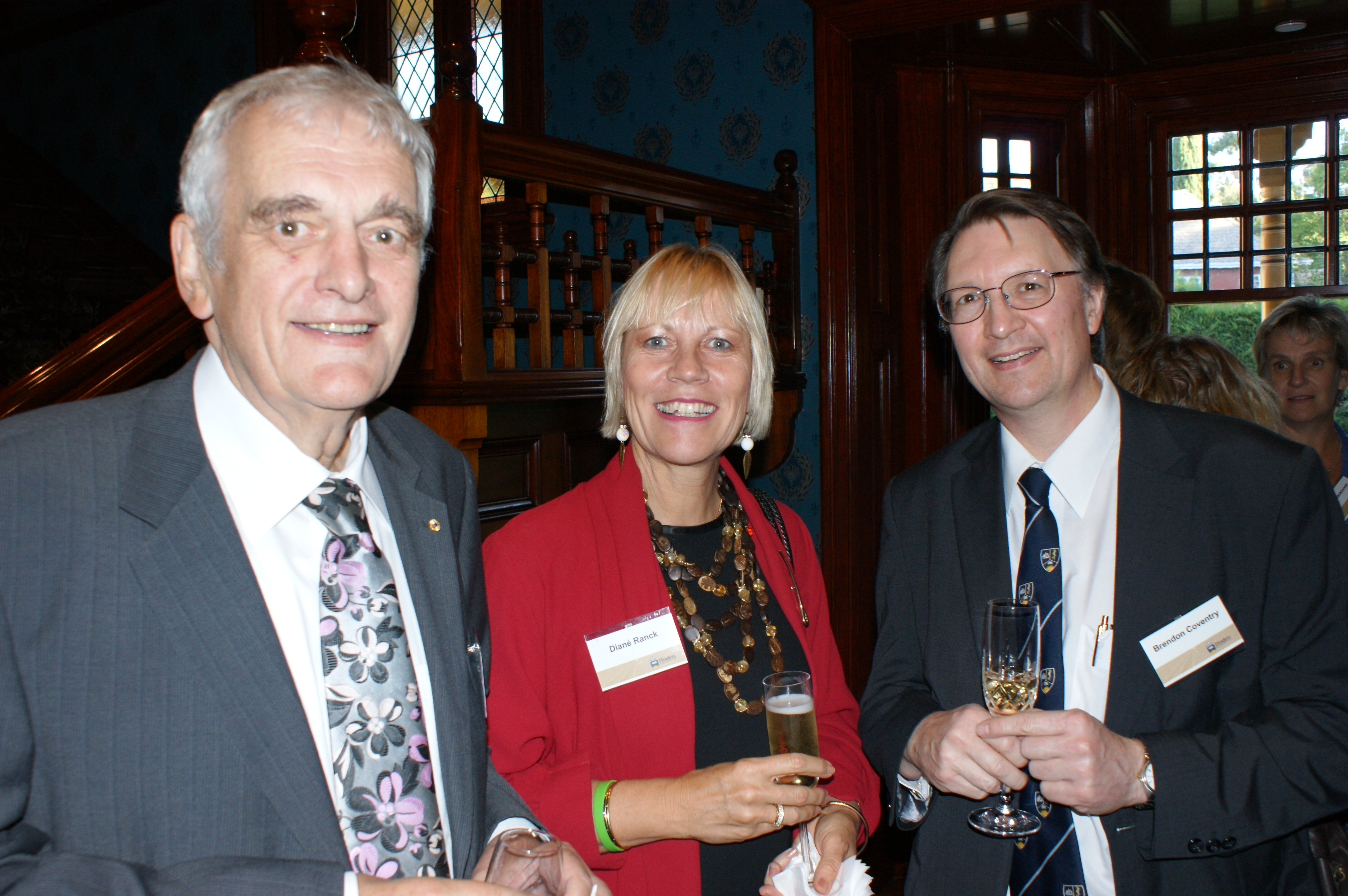 Brendon Coventry with Vice-Chancellor Gavin Brown of the University of Sydney and Diane Ranck (centre) from Flinders University, 2009.